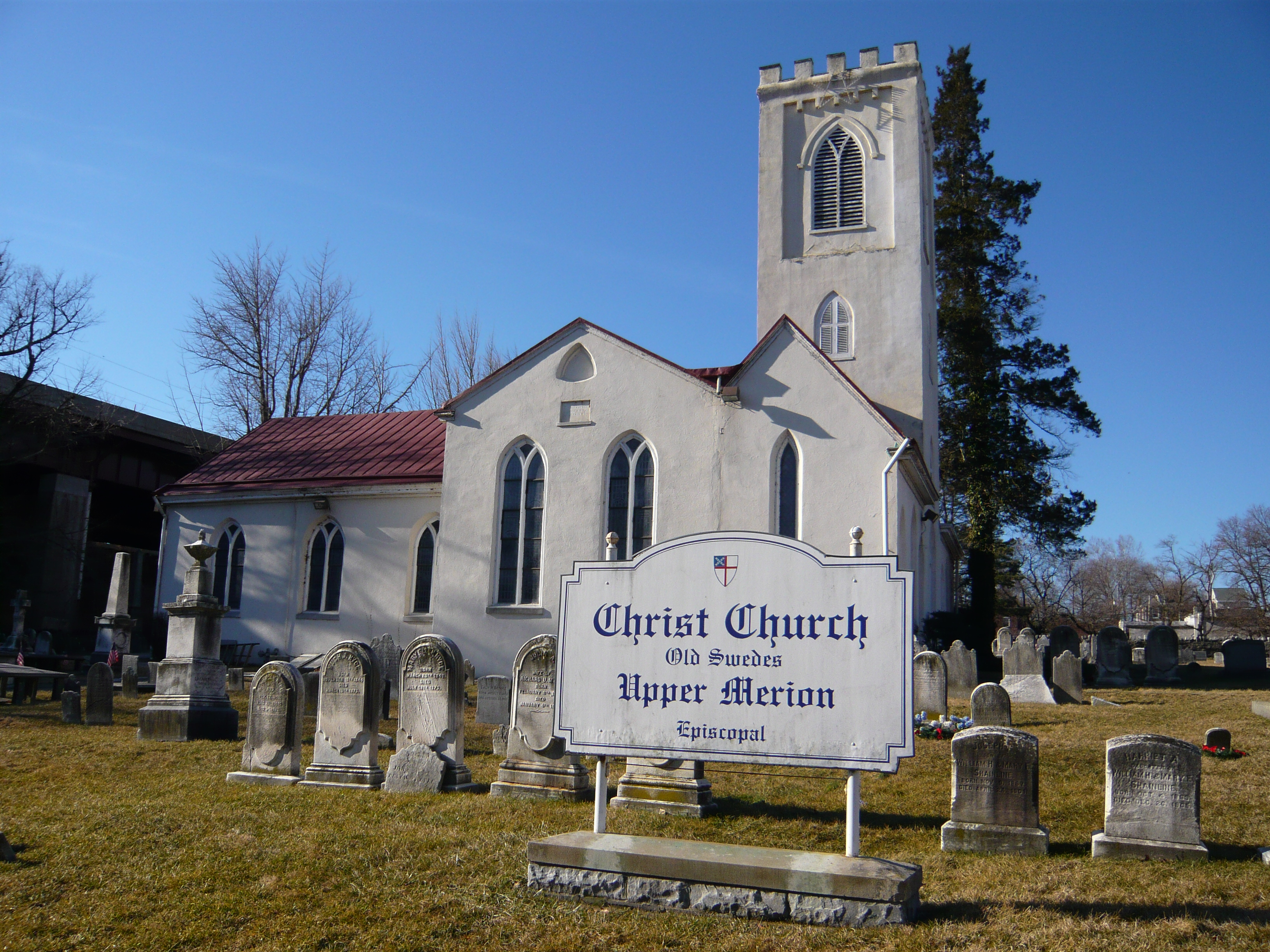 Old Swedes Church (Christ Church) Upper Merion, Swedesburg, PA Near Bridgeport, PA